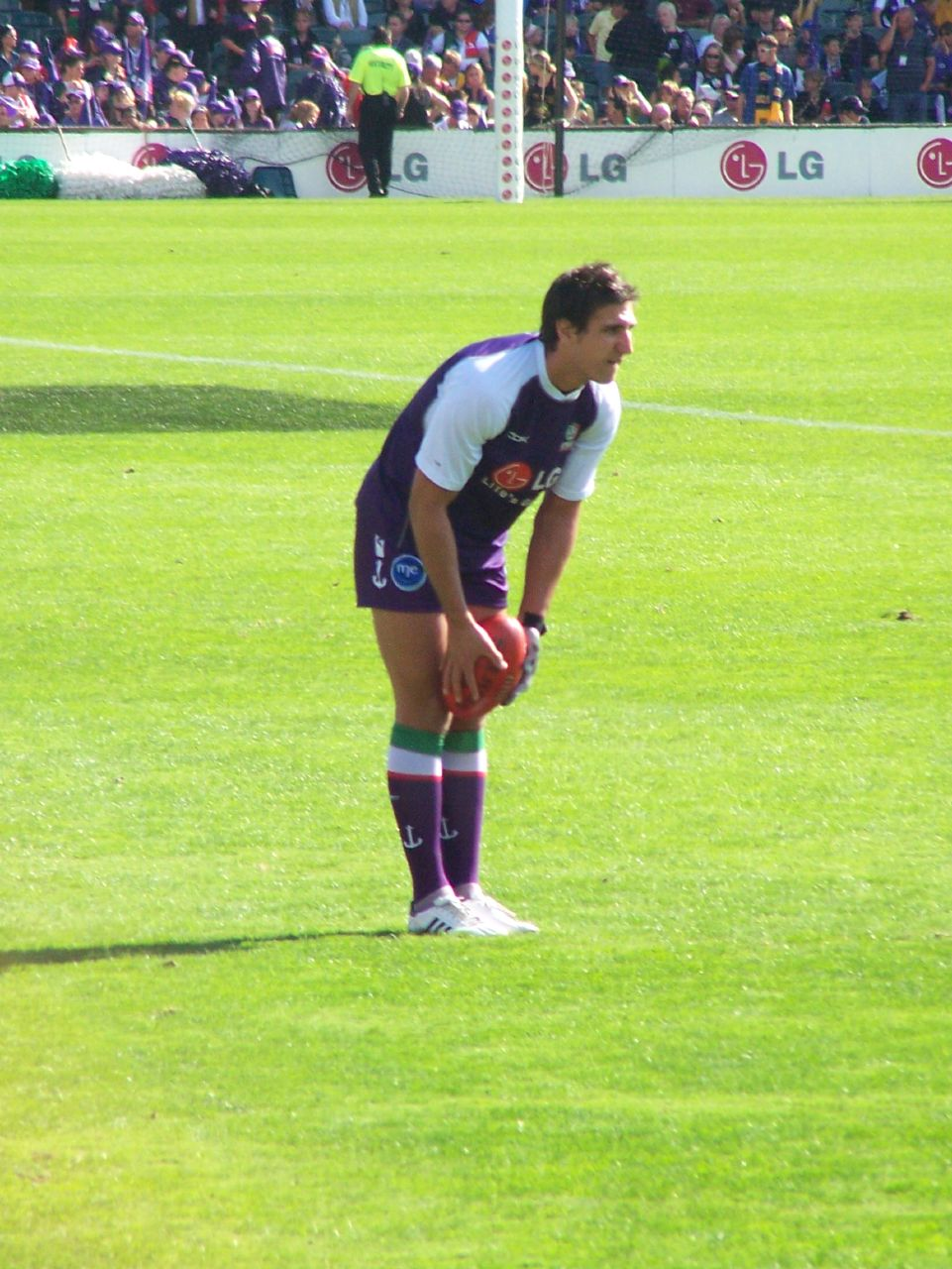 Matthew Pavlich warming up.